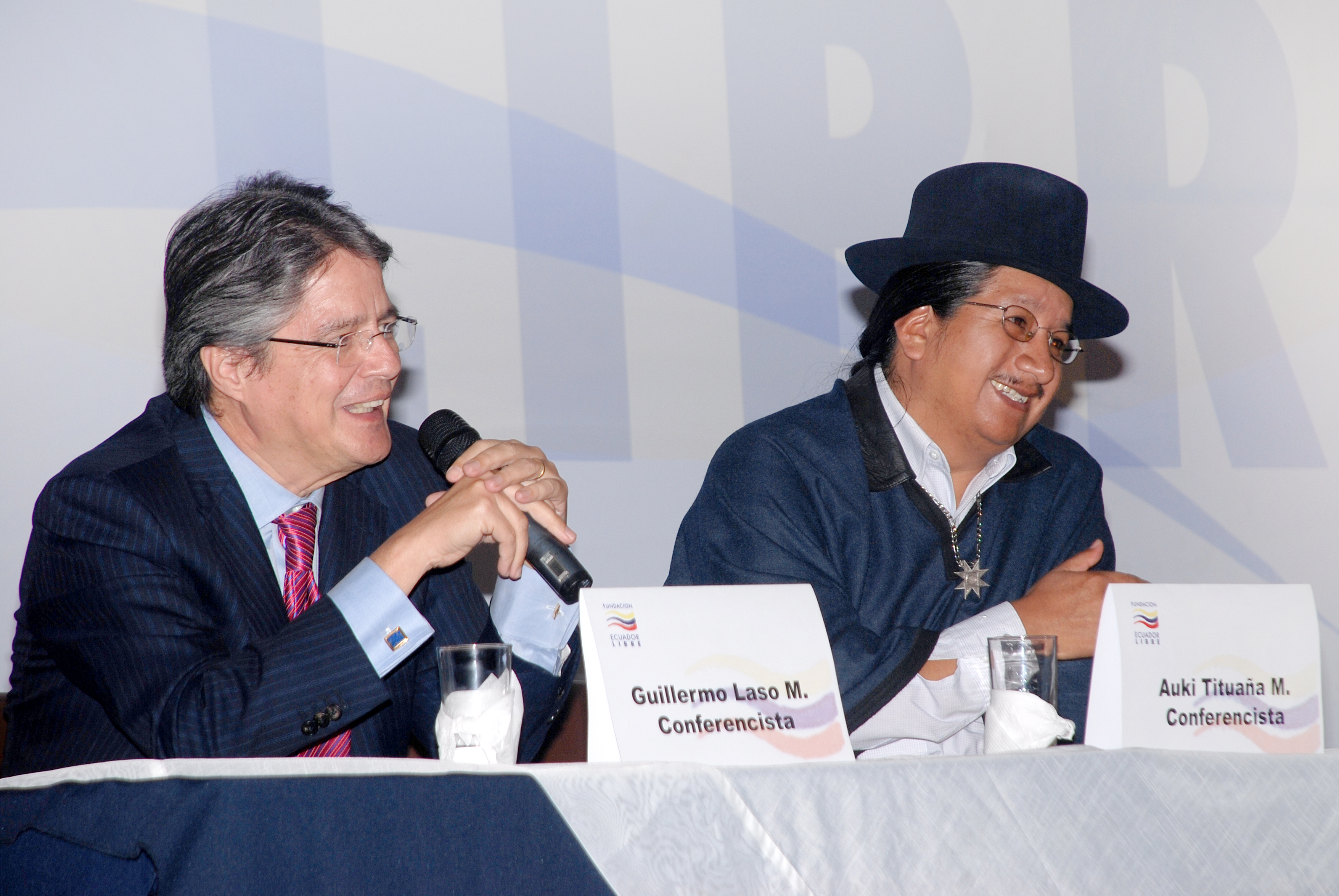 Guillermo Lasso y Auki Tituaña en un evento de la Fundación Ecuador Libre